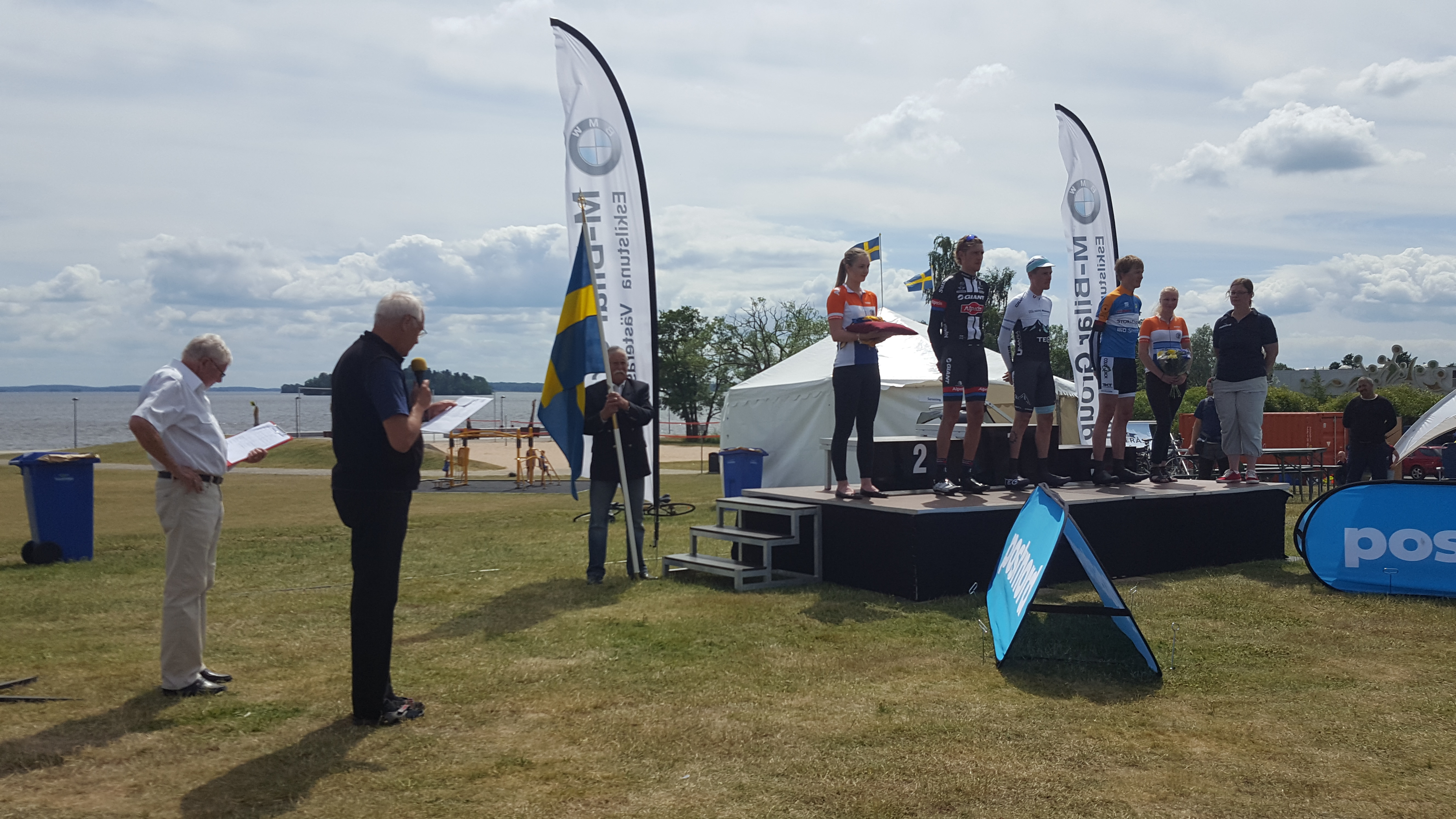 The medalists at Swedish championship in time trial 2016